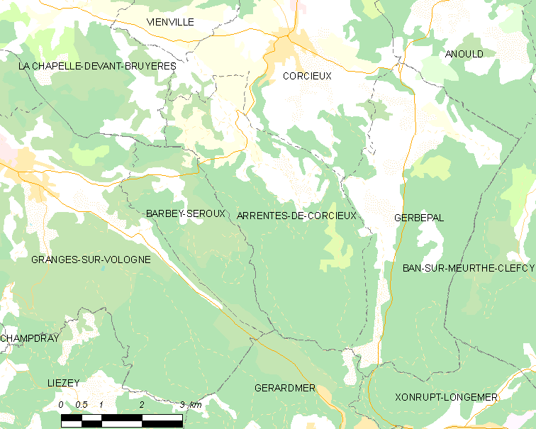 Map of French municipality Arrentès-de-Corcieux